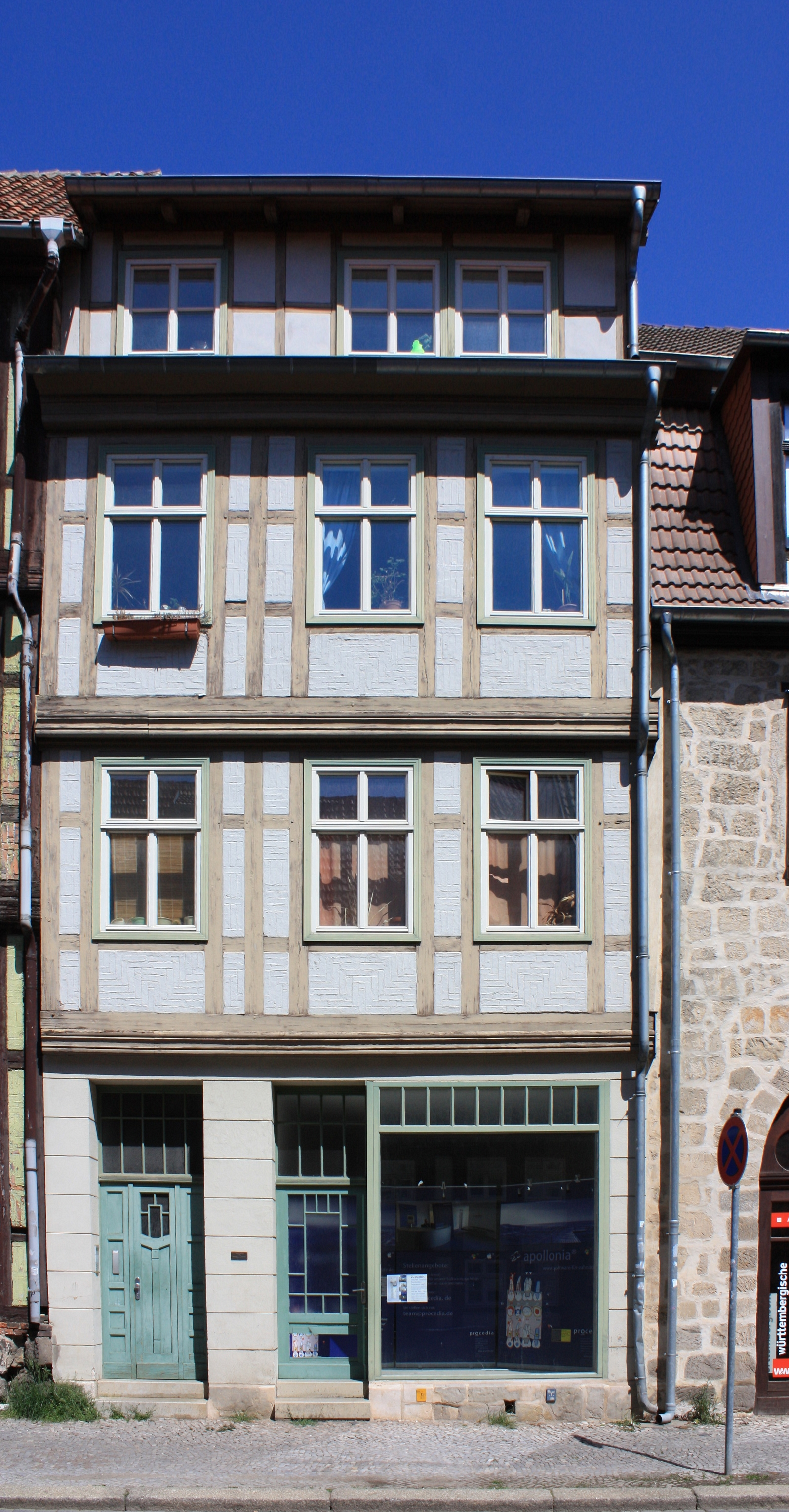 2=Building in Quedlinburg / Germany Steinweg 20